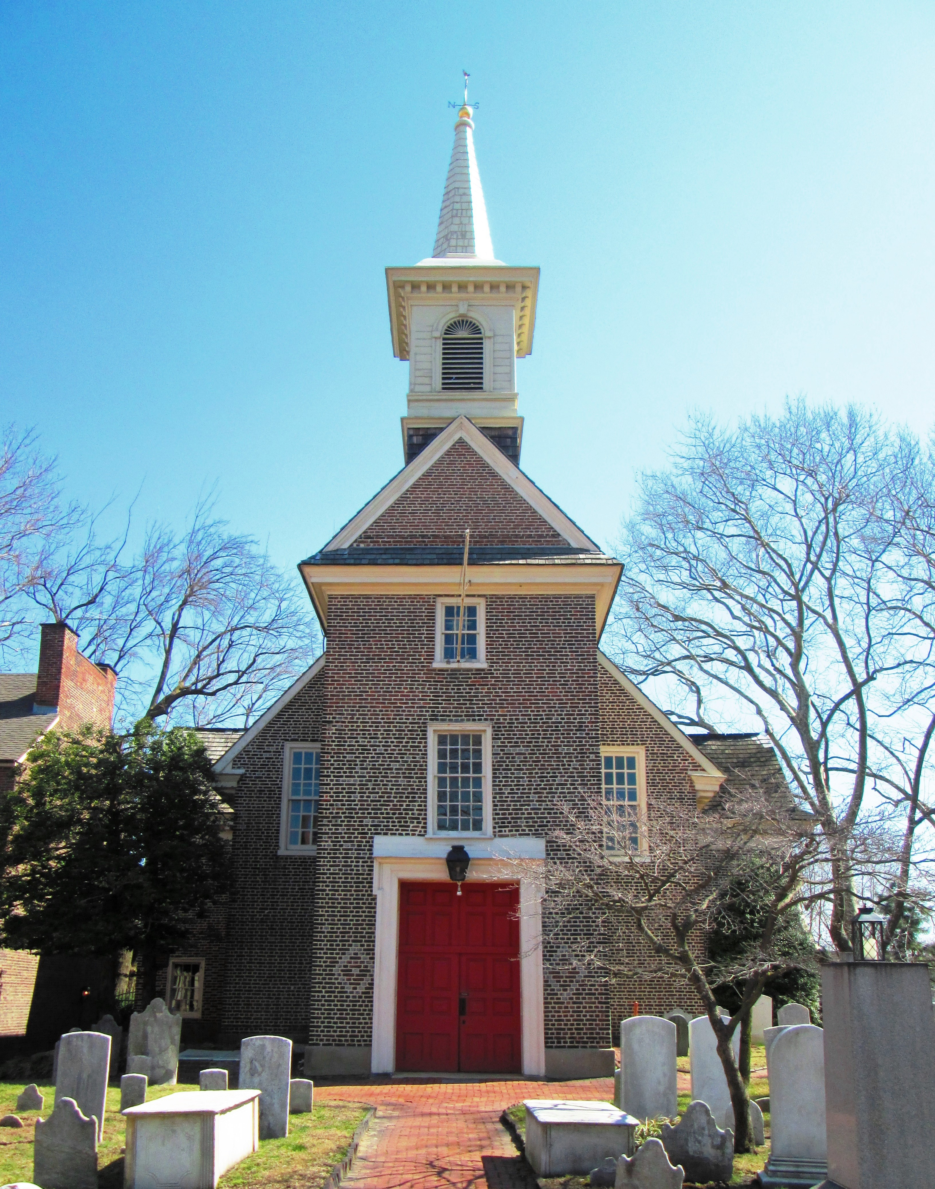 Gloria Dei Church, known locally as Old Swedes', is located in the Southwark neighborhood of Philadelphia, Pennsylvania, at 929 South Water Street, and is bounded by Christian Street on the north, South Christopher Columbus Boulvard on the east, and Washington Avenue on the south. It was built between 1698 and 1700, making it the oldest church in Pennsylvania and second oldest Swedish church in the United States after Holy Trinity Church (Old Swedes') in Wilmington, Delaware. The carpenters for the building were John Smart and John Buett and the church diaplays the English vernacular style of church design, which combines elements of the Medieval and Gothic styles. The church's vestry and entranceway were added in 1703 to buttress the walls, which had begun to buckle under the weight of the roof. The tower was added c.1733, and interior alterations were made in 1845, designed by Samuel Sloan. (Sources: Phiadelphia Architecture: A Guide to the City (FFA, 1994) and Architecture in Philadelphia: A Guide (1974, MIT Press))The congregation dates to 1677, and the graveyard to about the same time. Formerly Lutheran, since 1845, the church has been Episcopalian.